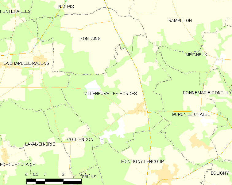 Map of French municipality Villeneuve-les-Bordes